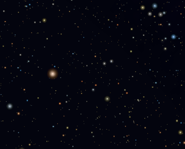 Image of Equuleus